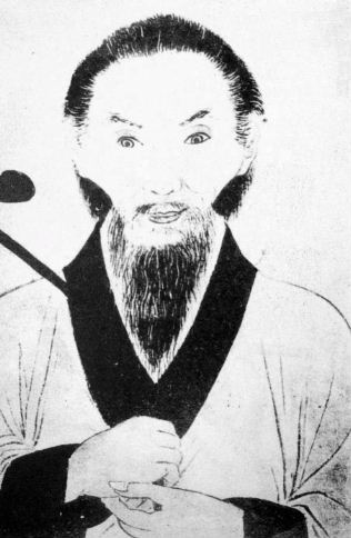 Seigan Yanagawa